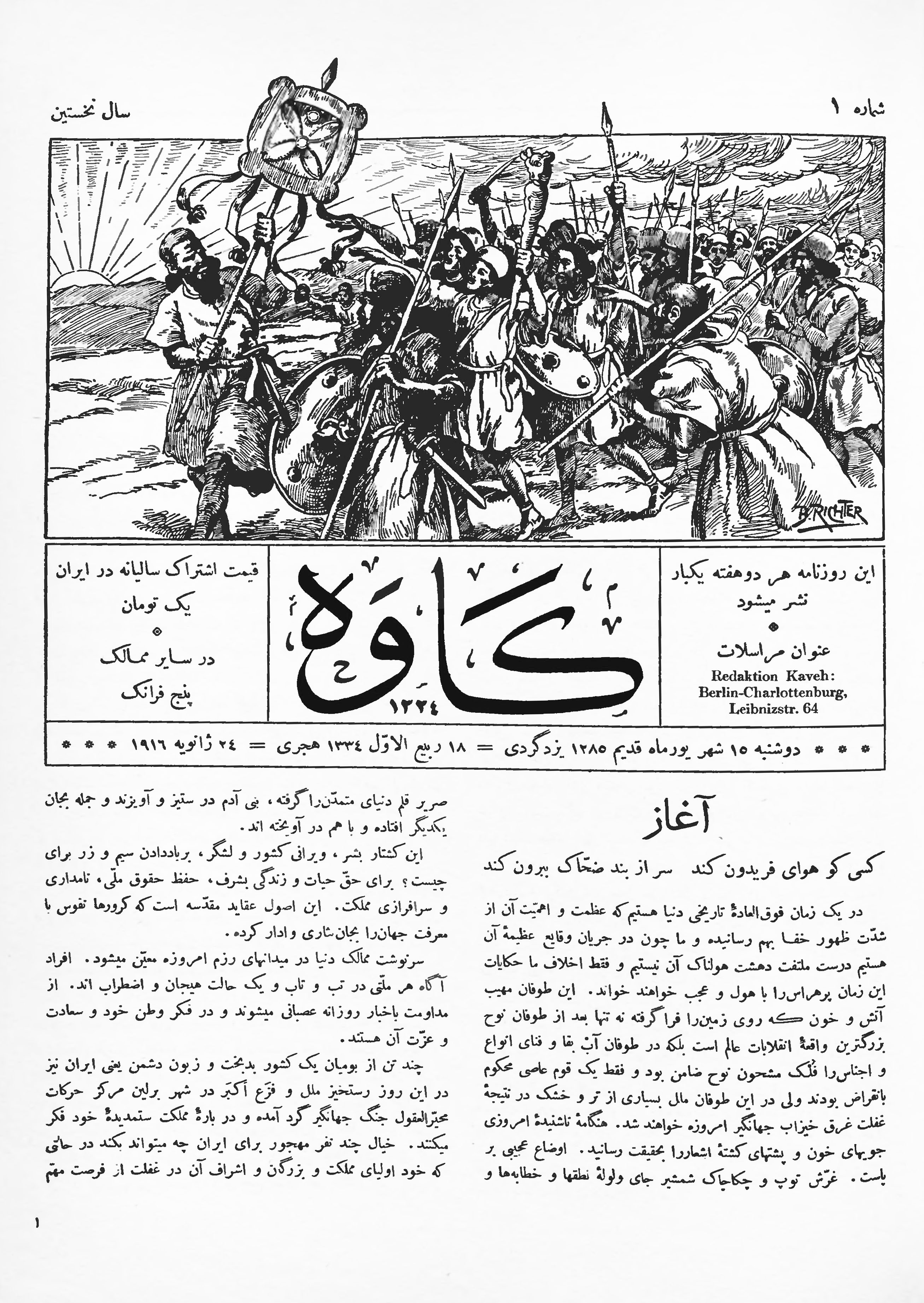 Kaveh, 1, Titelblatt (1916)